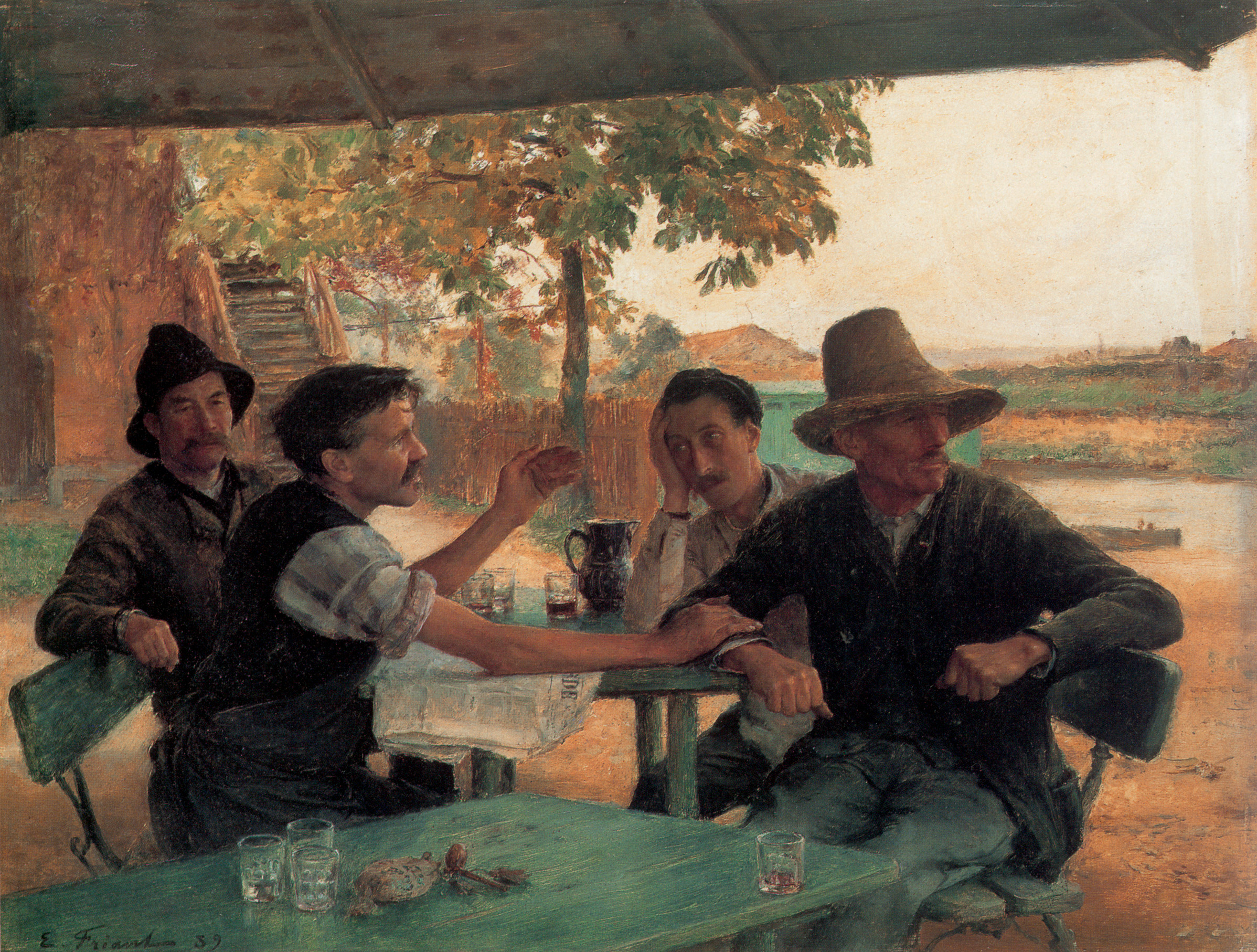 Political Discussion